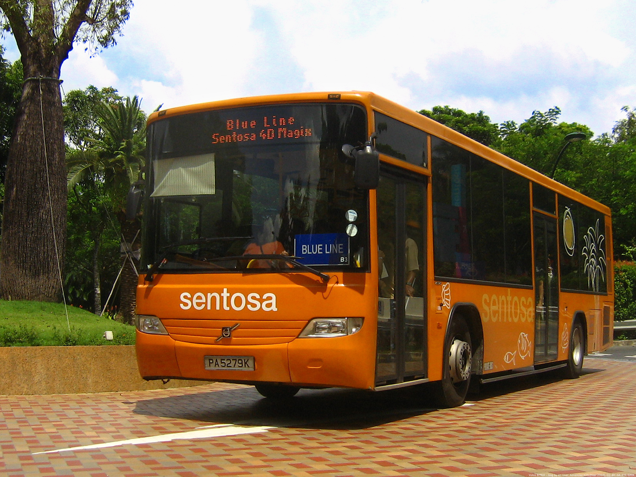 A Volvo B7RLE bus in Singapore